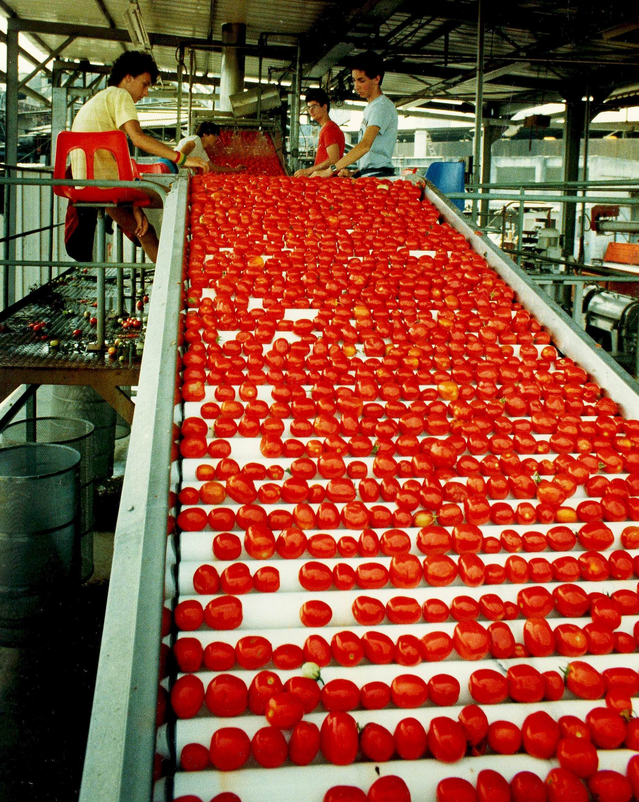 Gan-Shmuel - sort tomato industry 1987, Industry in Israel